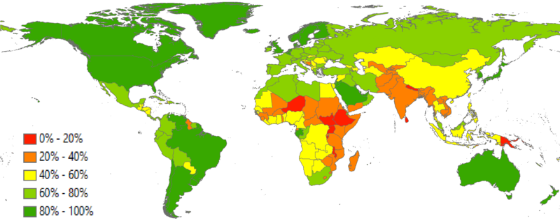 The percentage of a country's population that lives in urban areas.